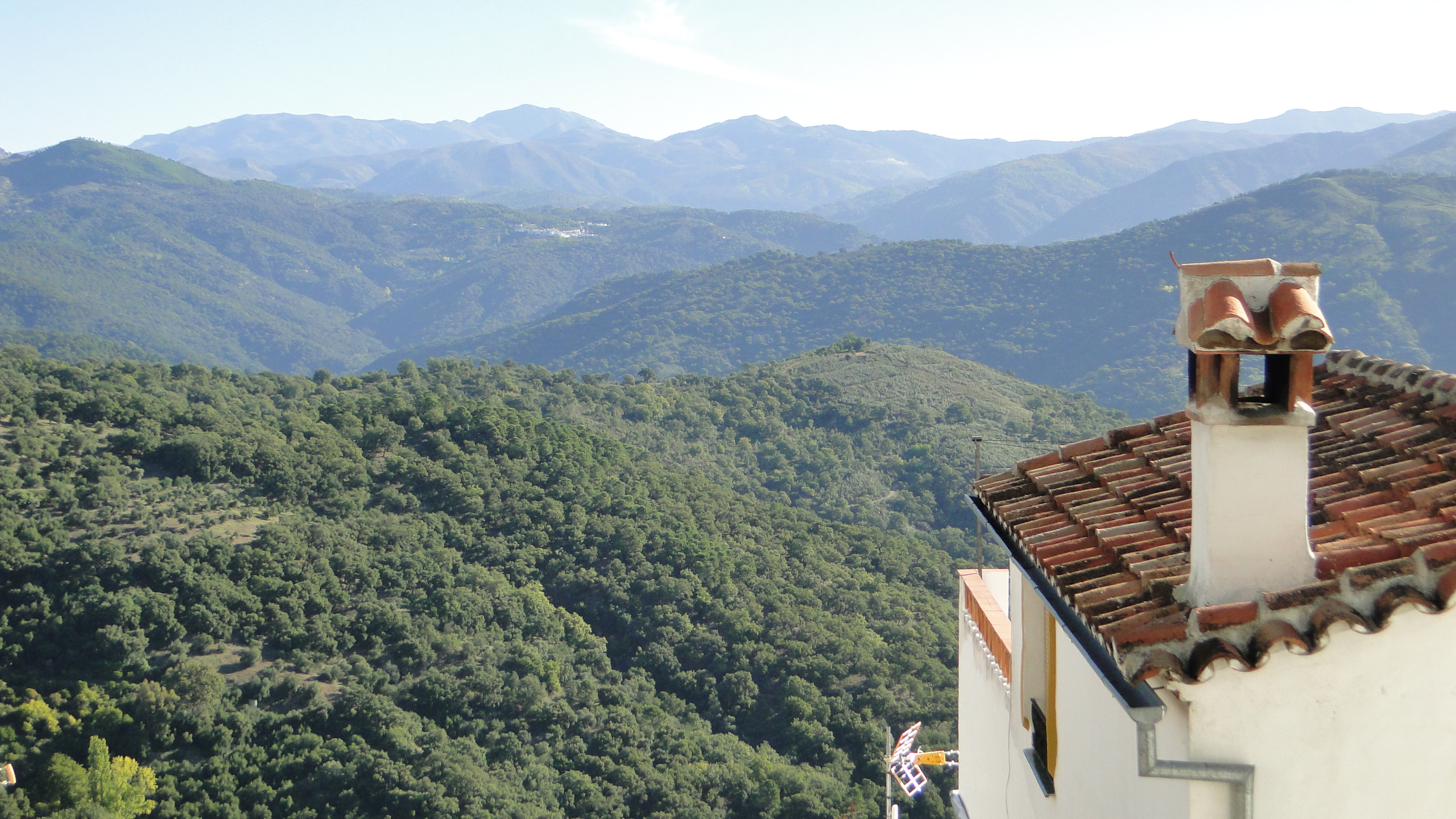 Benalauría (Málaga) - Valley of the Genal